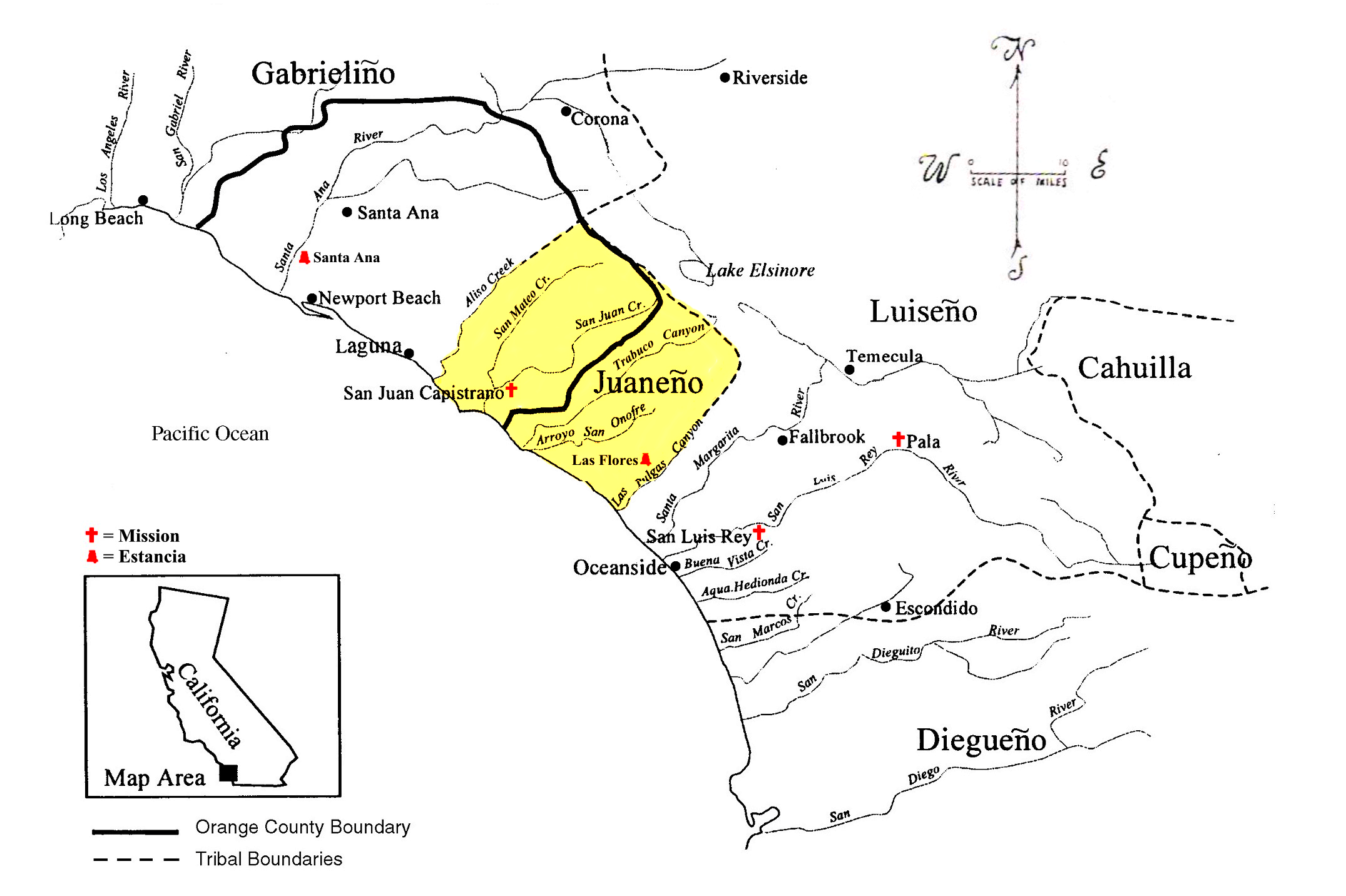 Map showing territory boundaries based on Native American linguistic groups in Southern California.